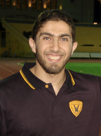 Firas Al Khatib - Syrian football player